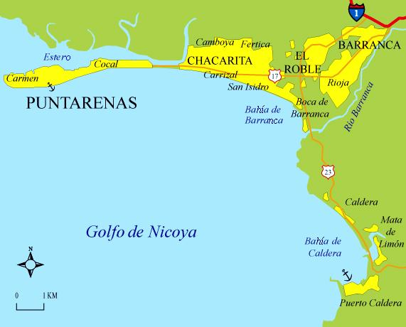 Map of the city of Puntarenas and its setting — in Puntarenas Province, western Costa Rica.